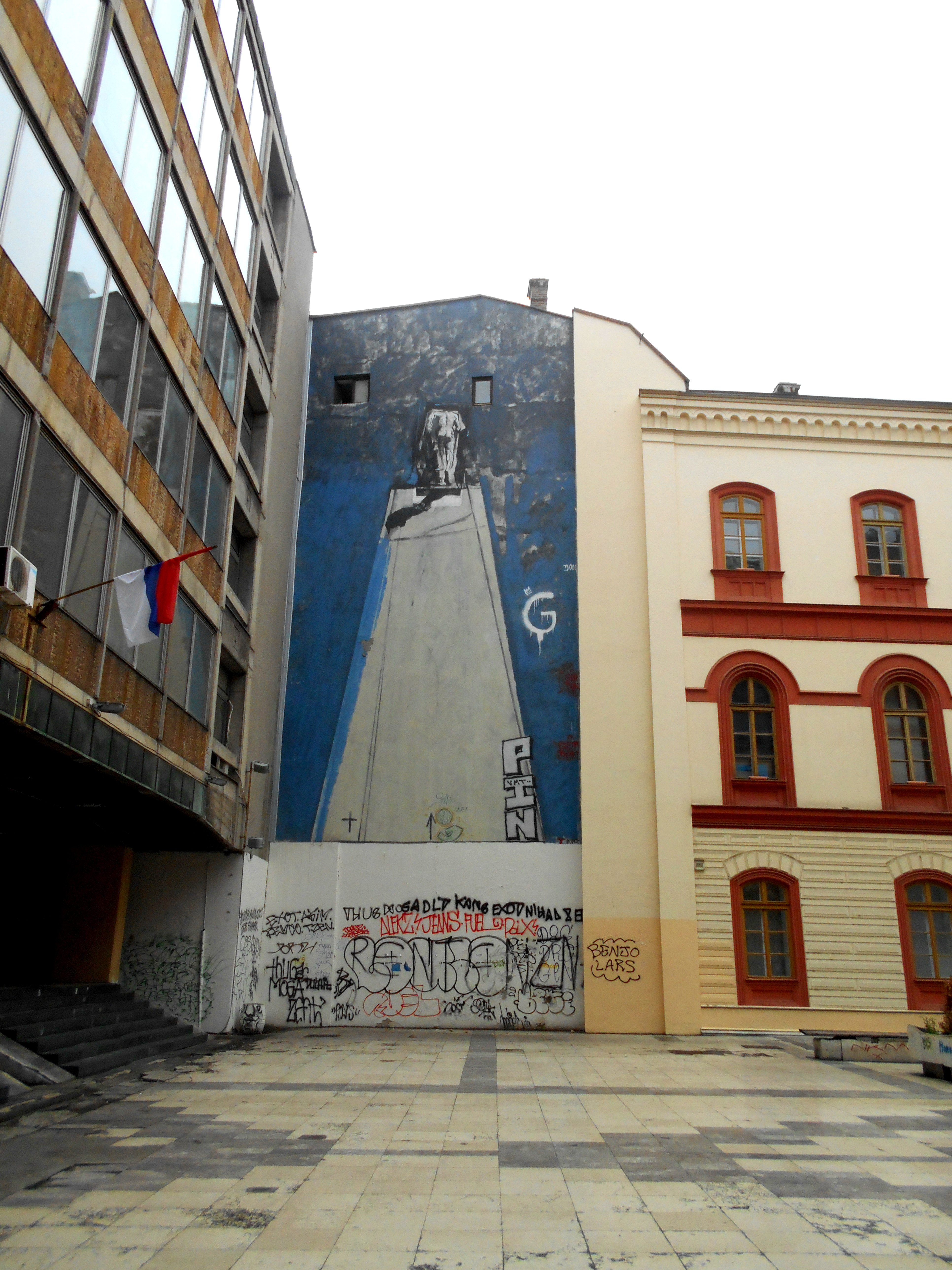 Mural on the wall of the building of the Faculty of Philosophy in Belgrade, the work of the painter Vladimir Veličković, painted on the occasion of the 9th Non-aligned Summit, 1989